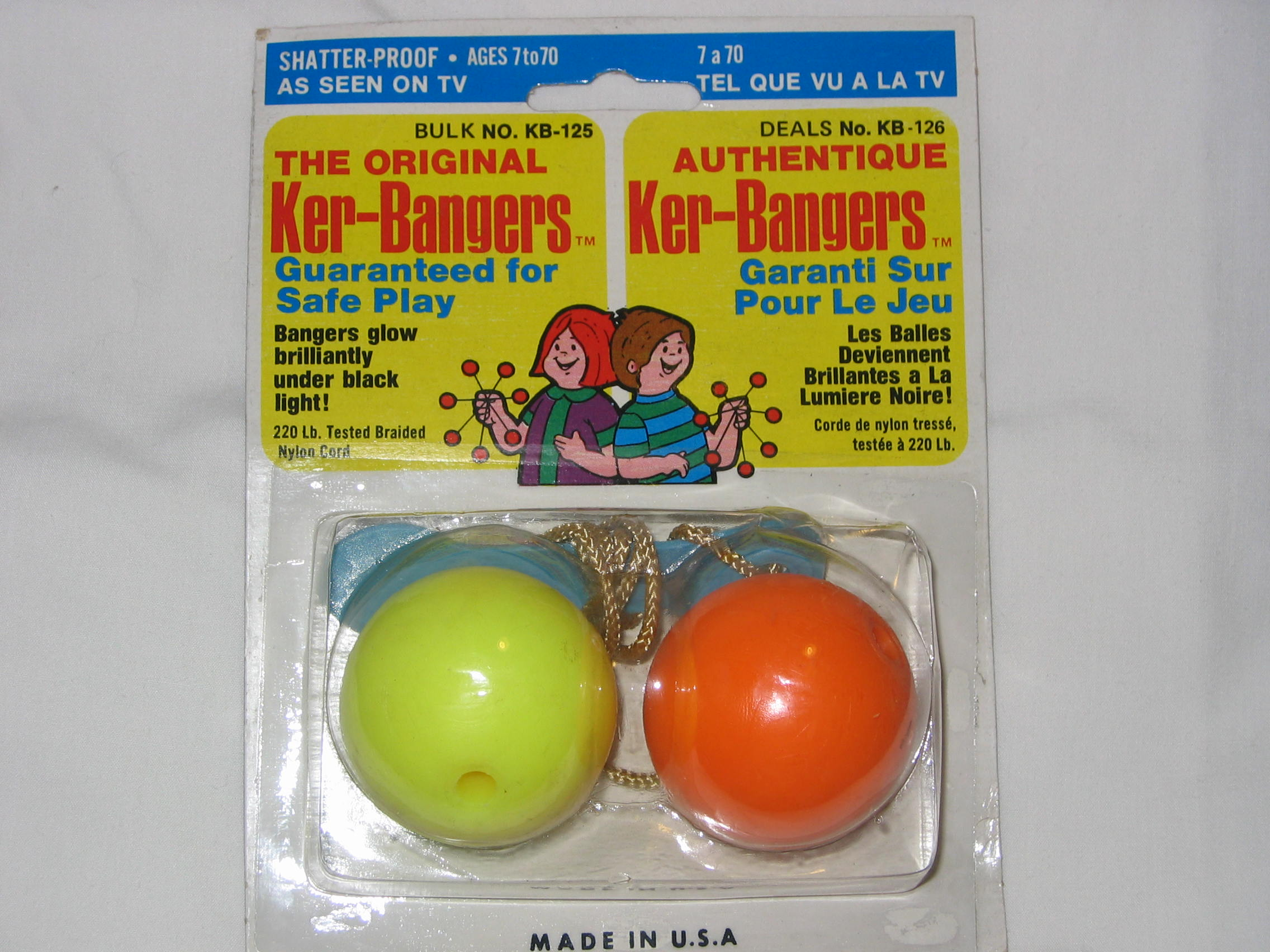 Ker-bangers NIP Front